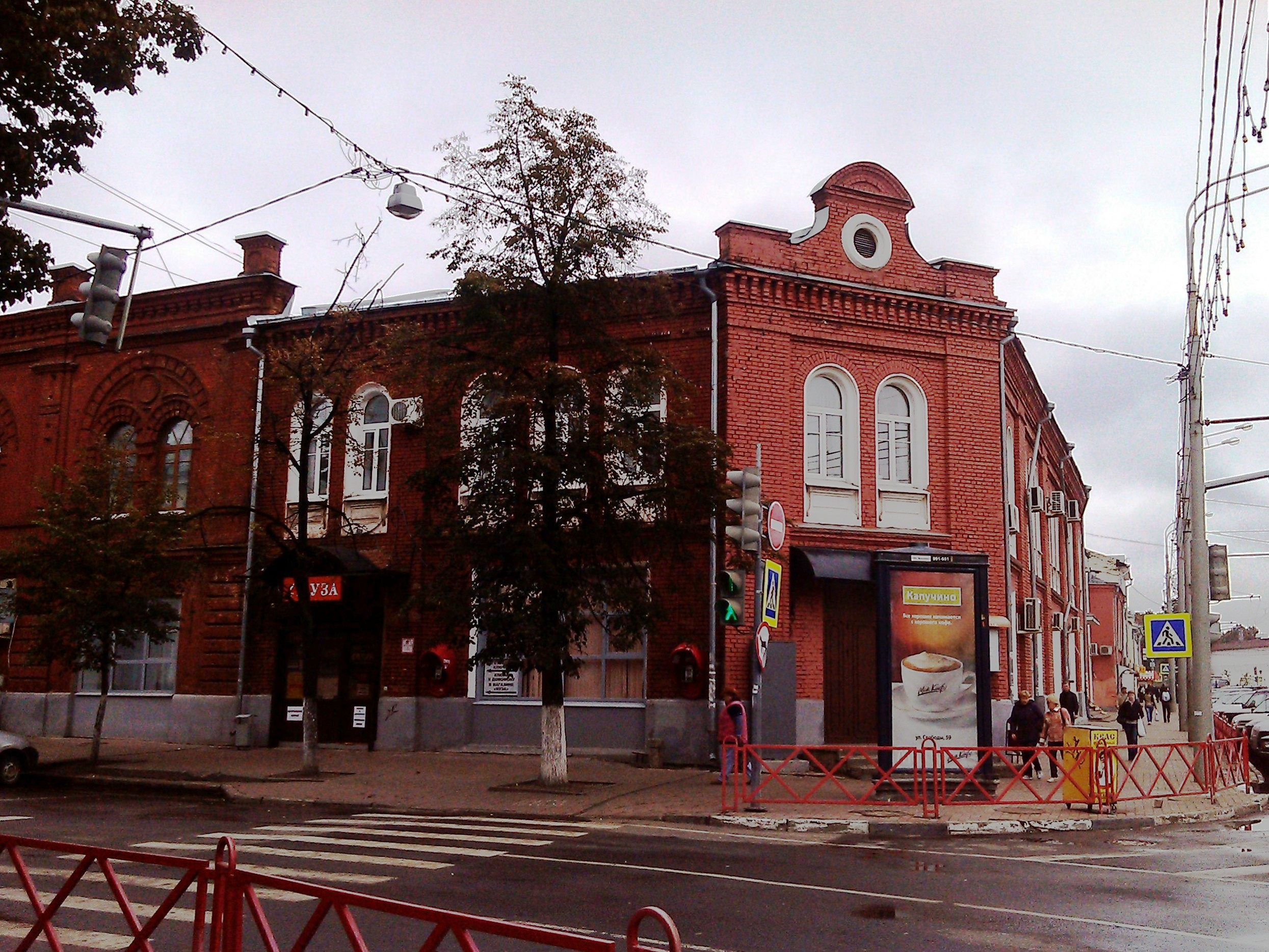 Mishinnikov House, Yaroslavl